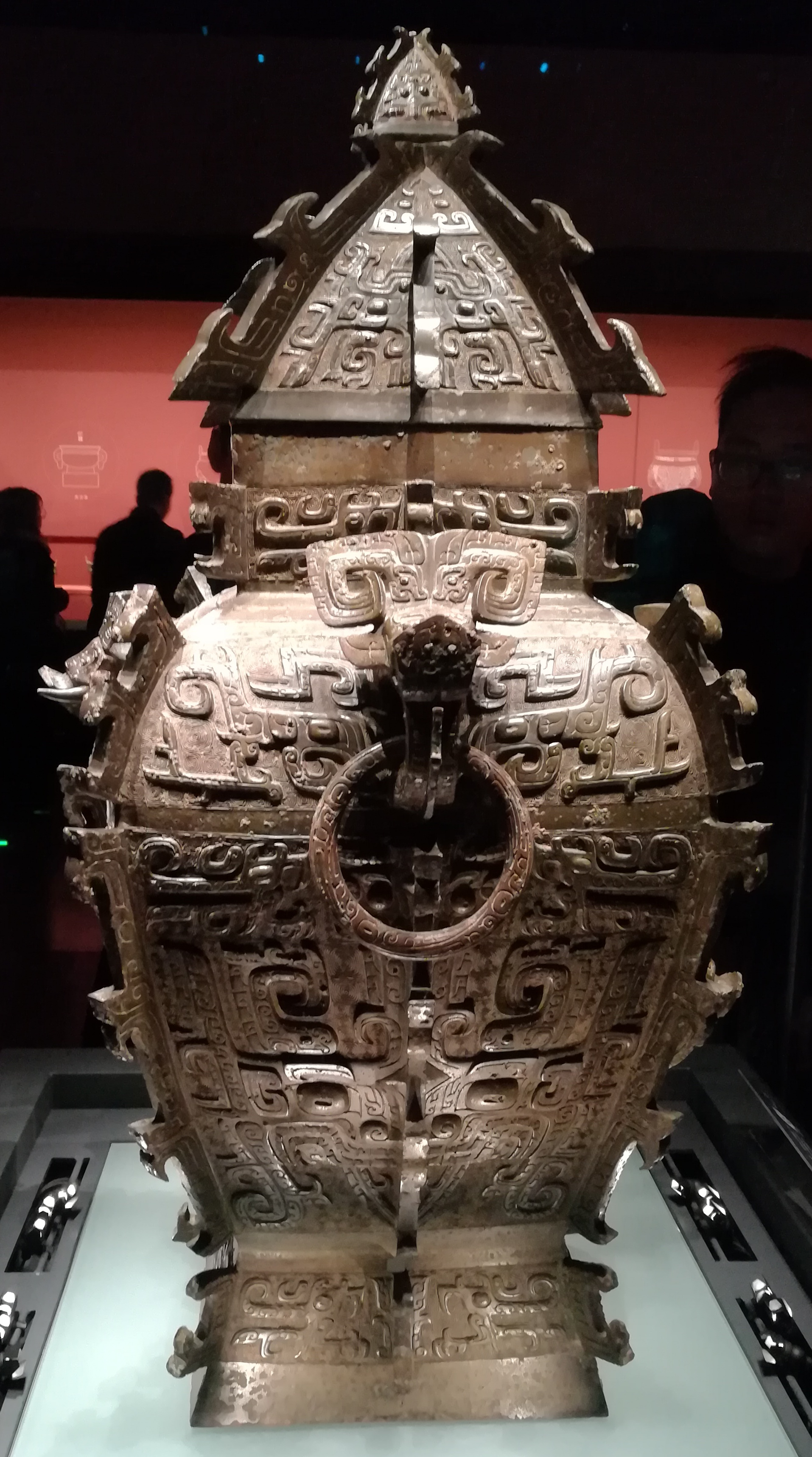 Min Er Quan Bronze Square Lei, Shang dynasty (1600 BC-1046 BC), excavated in 1919 from Shuitian Township of Taoyuan County, Yiyang, Hunan. It is preserved in Hunan Museum.